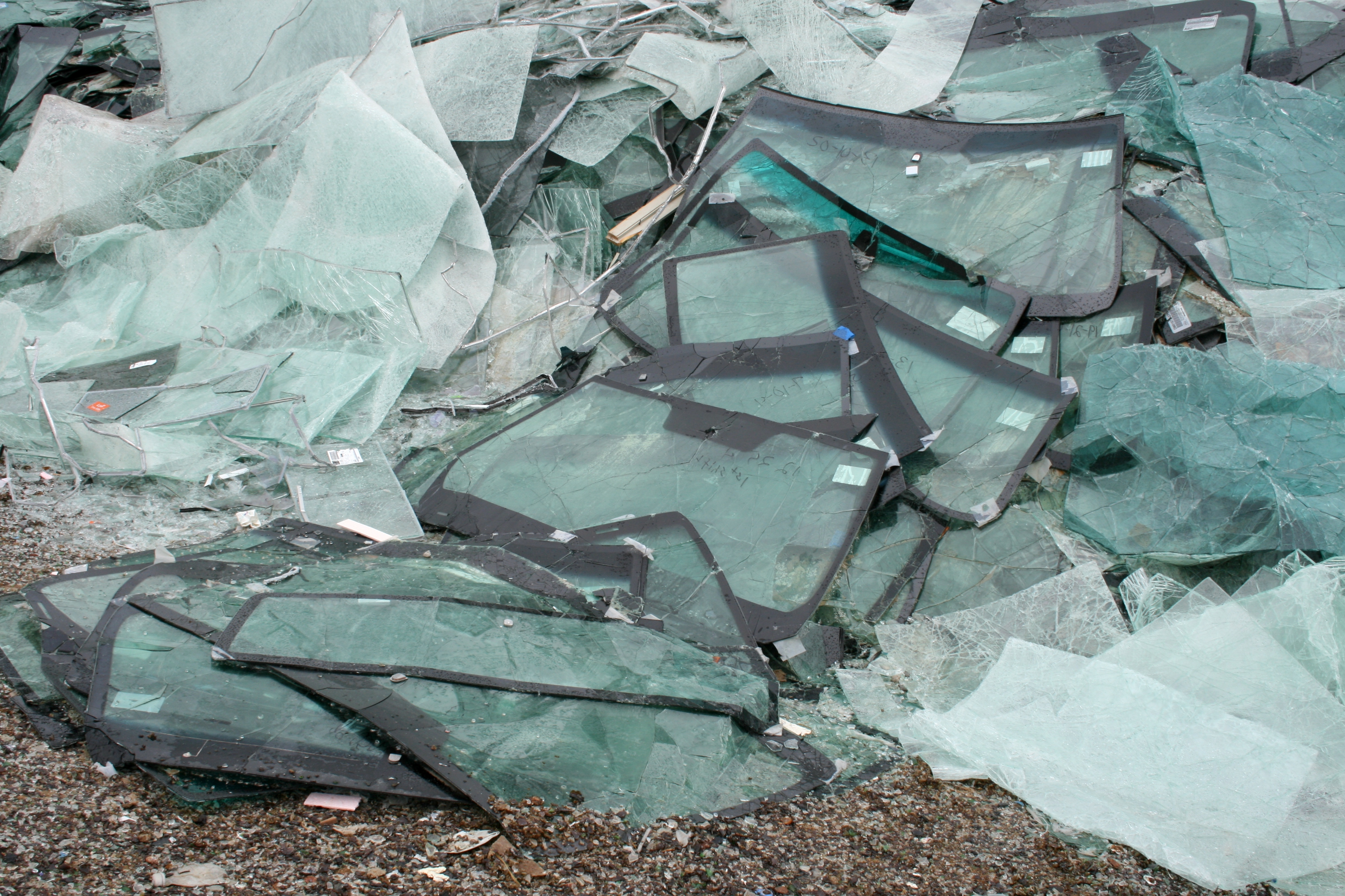 A pile of damaged windshields at Strategic Materials, Inc., a post-industrial and post-consumer glass processing facility at 503 Junction Road in Durham, North Carolina.